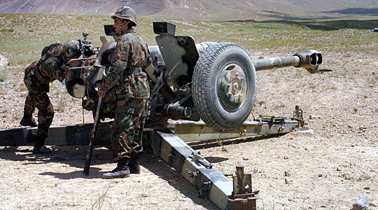 Two Afghan National Army soldiers prepare to fire the D-30 Howitzer during a recent annual training exercise. One soldier (left) determines the aiming point, while the other soldier watches crew members prepare ammunition for loading. The soldiers are part of the 4th Combat Support Kandak (Battalion), 3rd Brigade, of the Afghan National Army's 201st Corps. U.S. Army photo by U.S. Army Capt. Cenethea Harraway